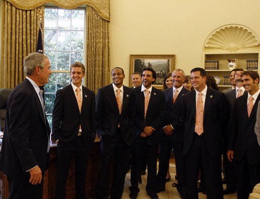 George W. Bush with the Major League Soccer Cup Champions, Houston Dynamo soccer team in the Oval Office.